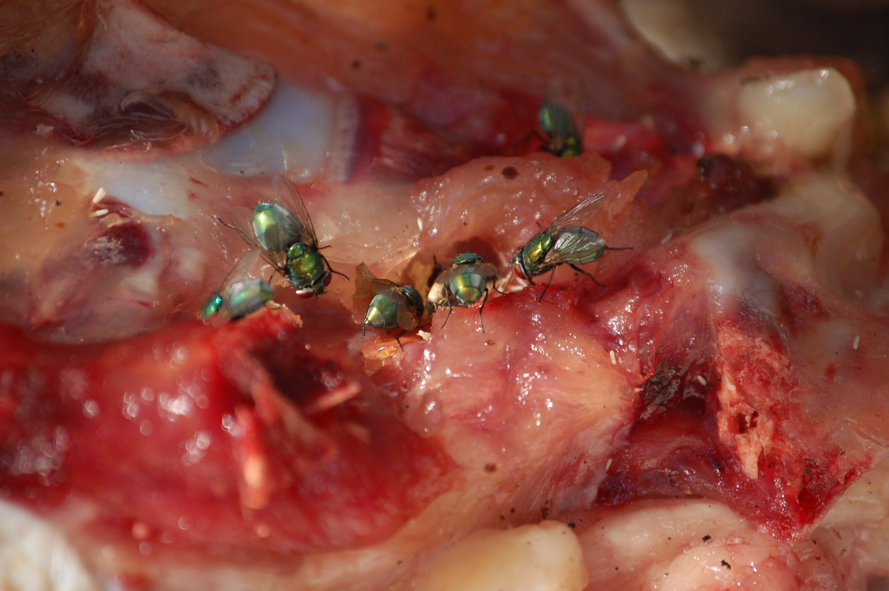 Green bottle fly on a piece of meat.